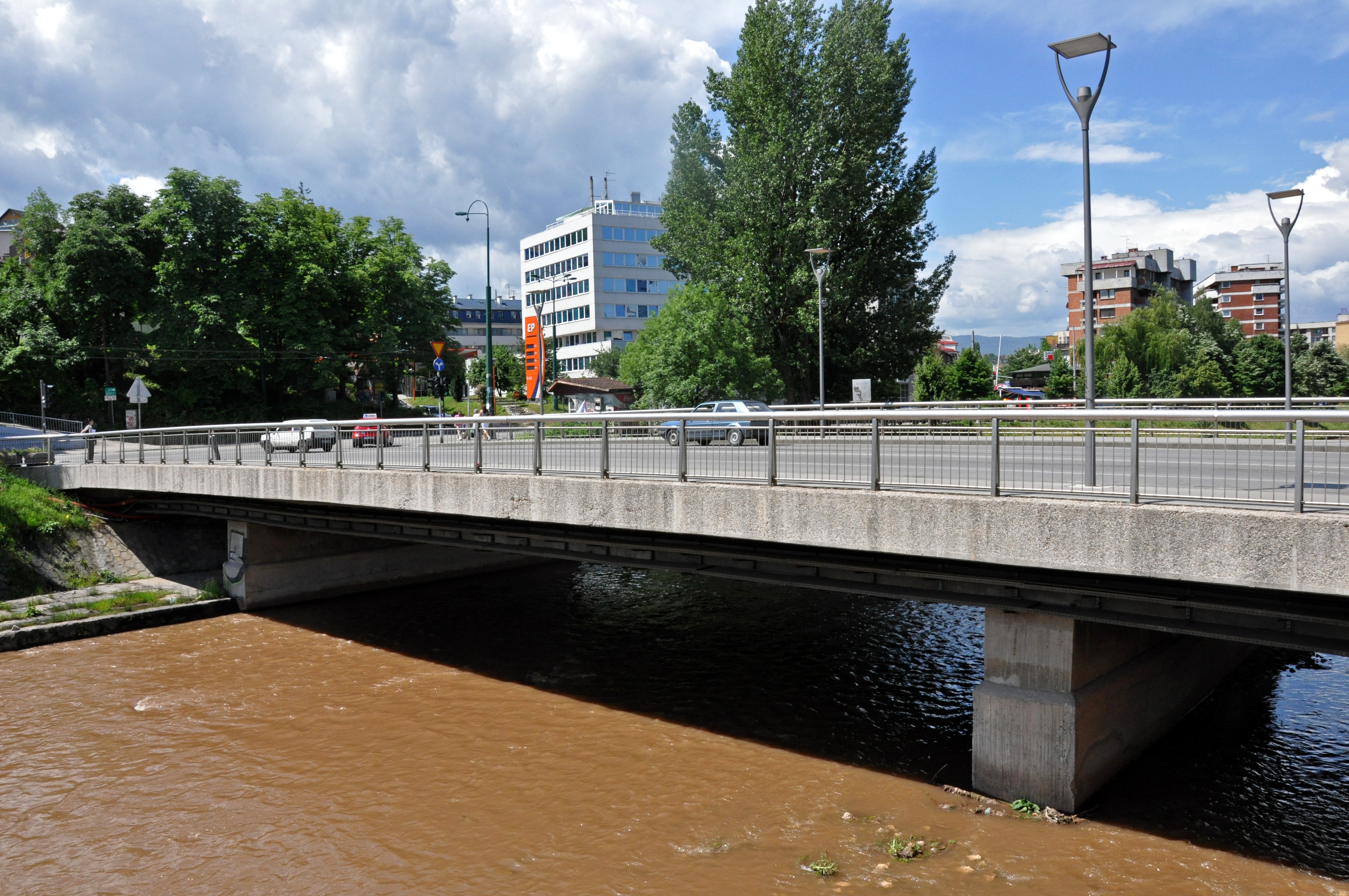 In 1999 it was renamed the Most Suade i Olge after Suada Dilberović and Olga Sučić, the first victims of the war to be killed in Bosnia and Herzegovina. On April 5, 1992, 100,000 people turned out for a peace rally in Sarajevo. Serb snipers opened fire on the crowd from the Holiday Inn, killing six people and wounding several more. Suada and Olga were in the first rows, protesting on the bridge, and were the first to be killed. Today at the bridge there is a memorial tablet in memory of these two innocent victims that says: “A drop of my blood flowed, and Bosnia did not drain.” There’s another sad story tied to this bridge. On May 19, 1993, Admira Ismić and Boško Brkić were fleeing the besieged city via this bridge. An arrangement was made that at 5pm no one would fire as the couple approached. The couple approached the bridge at that time but as soon as they were at the foot of the bridge, a shot was heard. The bullet hit Boško Brkić and killed him instantly. Another shot was heard and Admira Ismić screamed and fell down wounded. She crawled over to her boyfriend, cuddled him, and died. It was observed that she was alive for at least 15 minutes after the shooting.